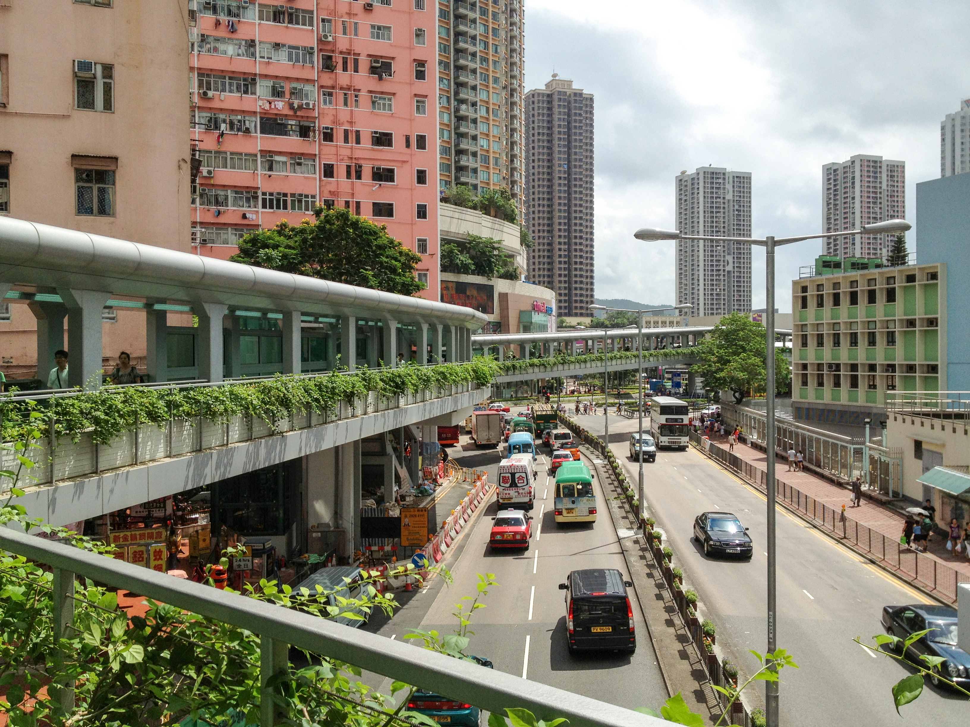 Tsuen Wan Bridge Access